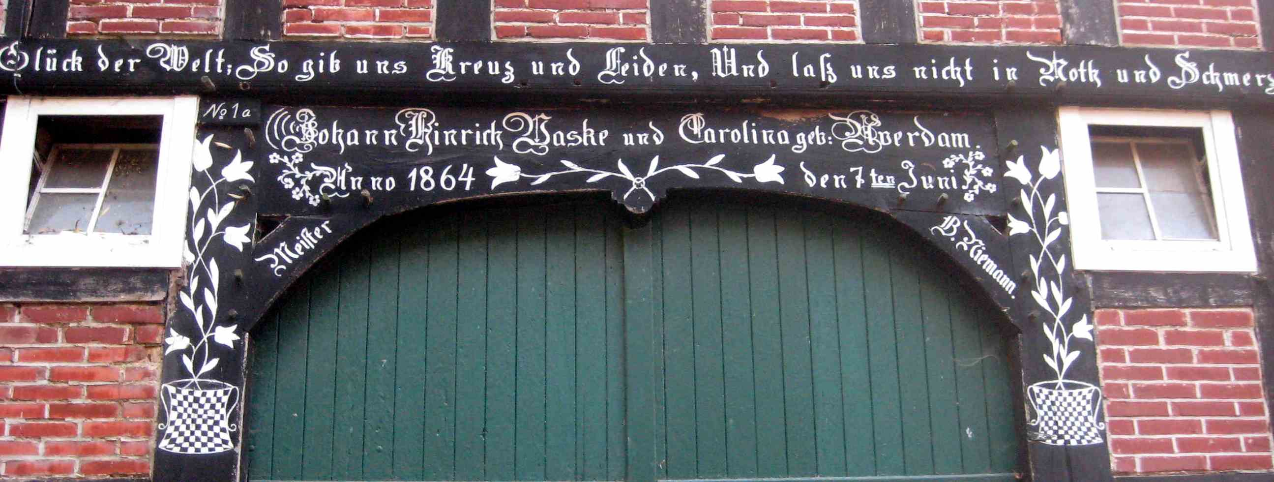 Motif of the tree of life (house inscription)